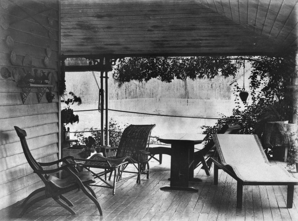 Creator: Unidentified Location: Torwood, Brisbane Description: The verandah on W. C. Hume's residence at Torwood, 'Faiseal'. The verandah is furnished with a wicker squatter's chair, a number of reclining chairs, a timber table, and assorted pot plants. The wall is decorated with vases and other ornaments. View this image at the State Library of Queensland: Information about State Library of Queensland’s collection: You are free to use this image without permission. Please attribute State Library of Queensland.